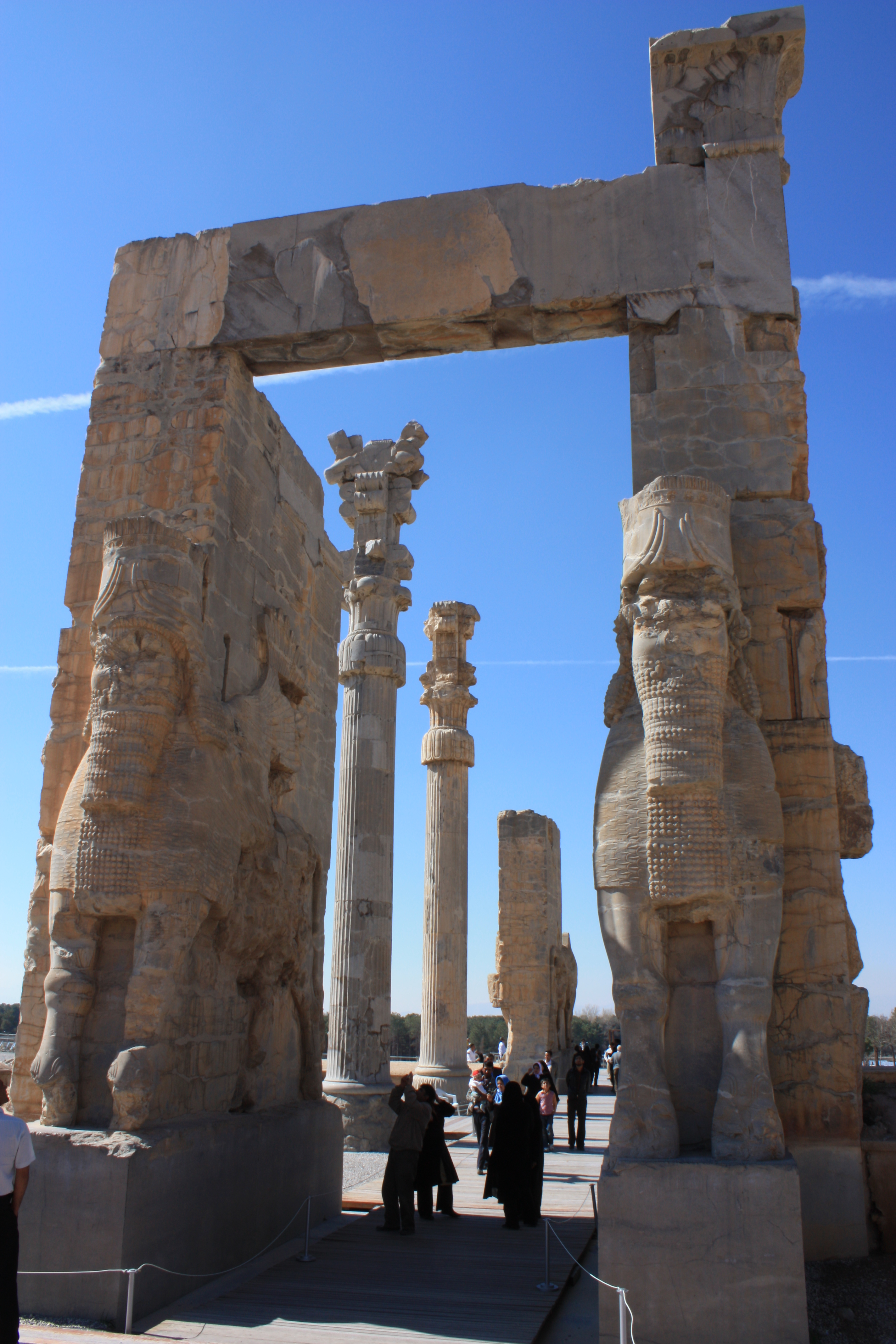 Persepolis in Shiraz